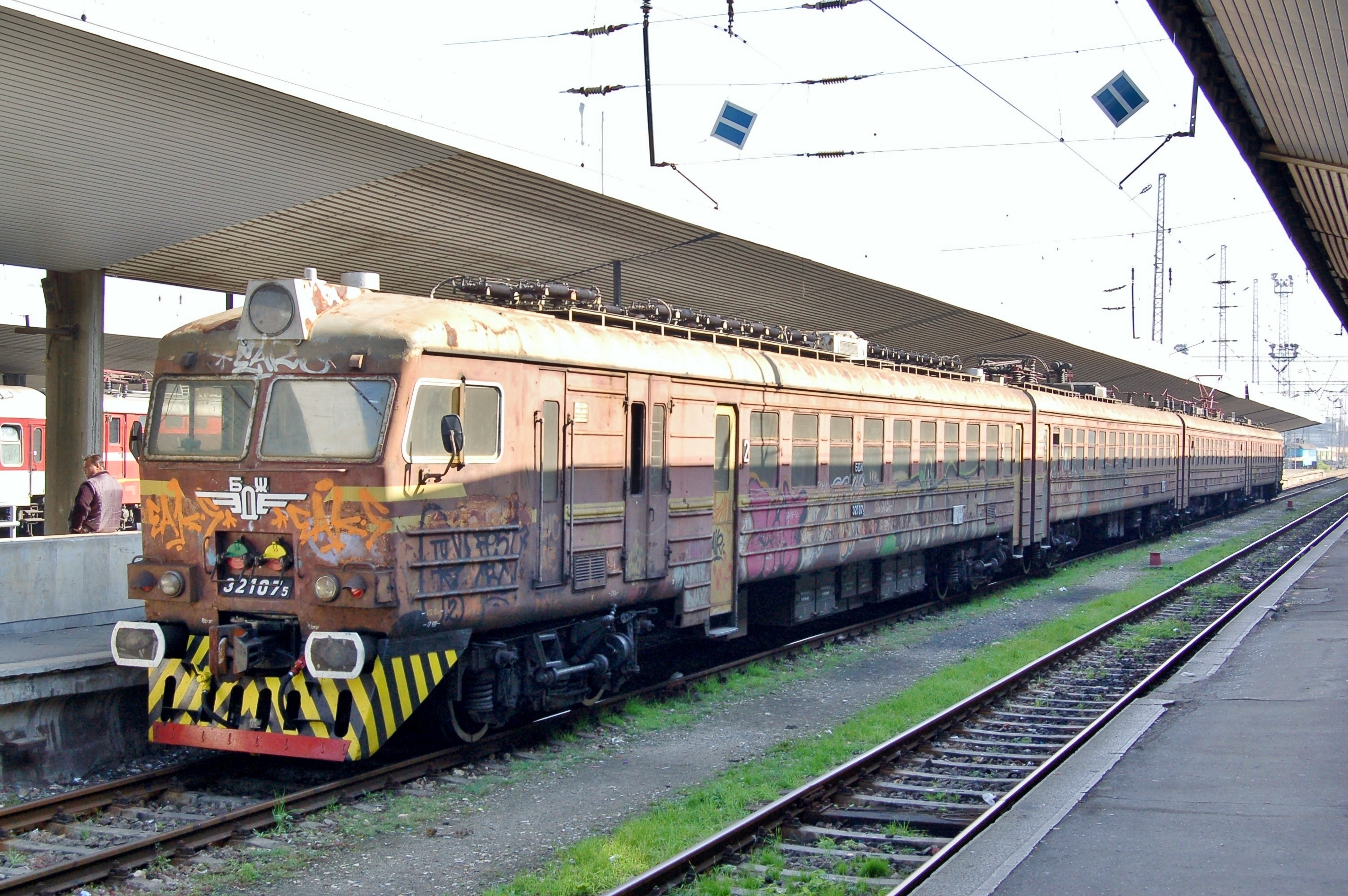 ER25 type (BDŽ class 32) electric multiple unit no. 32 107.5 at Sofia Central Station, Bulgaria.